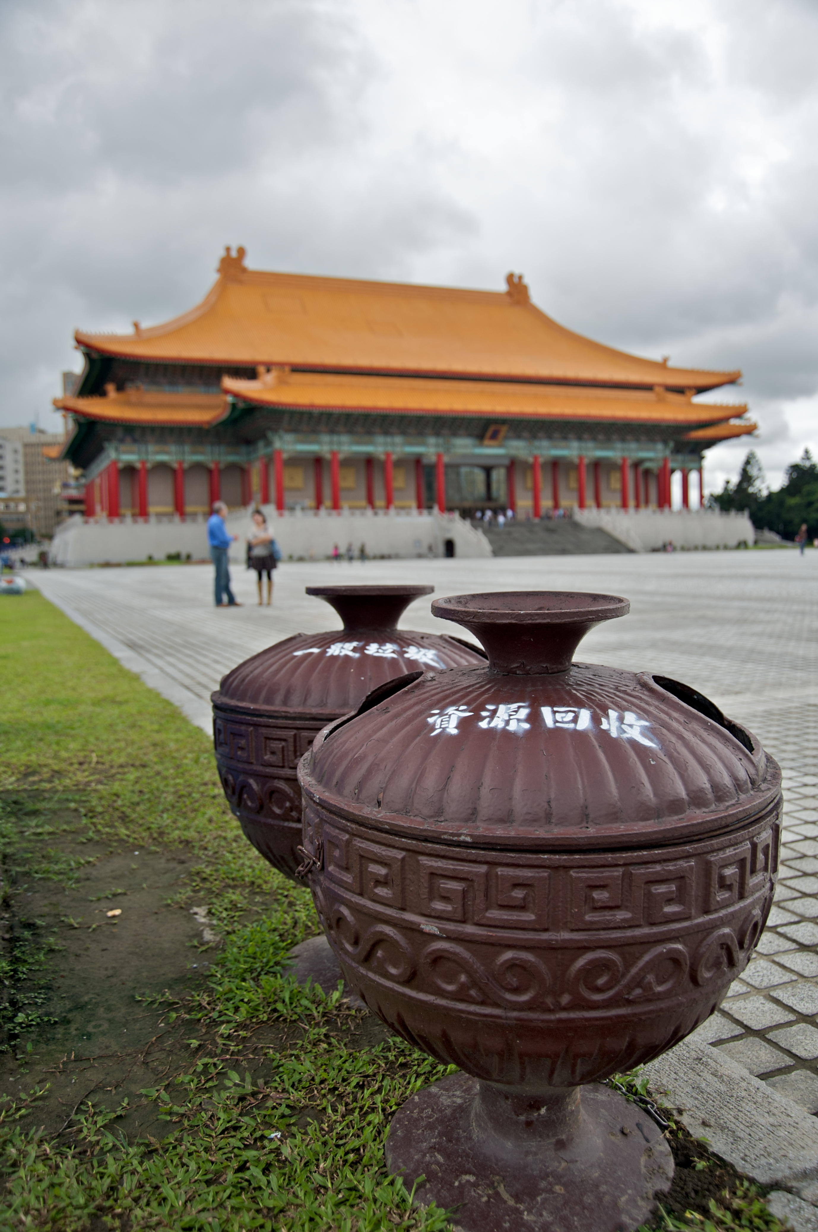 Waste containers. National Theater at the Liberty Square in Taipei, Taiwan